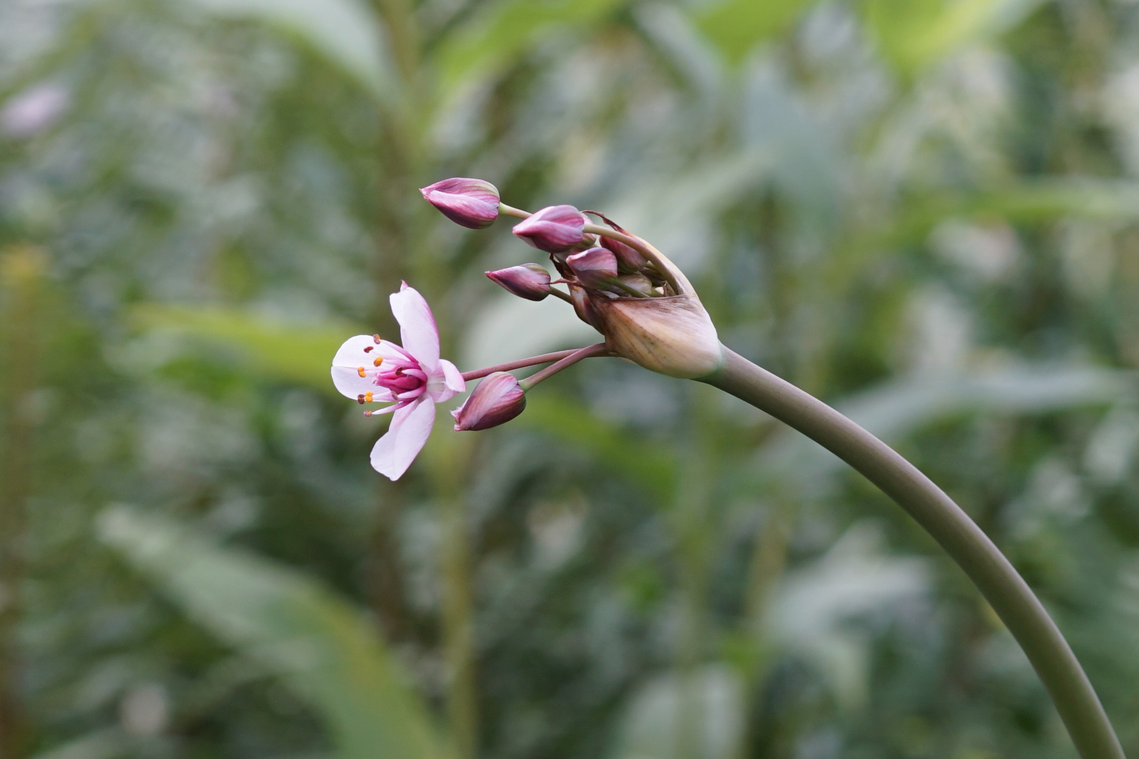 Butomus umbellatus